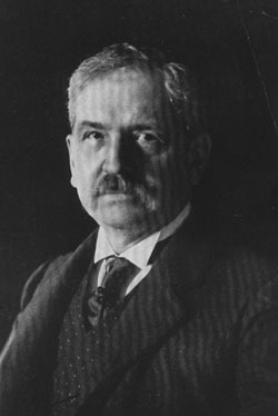 Picture of Charles Emory Smith, Minister to Russia